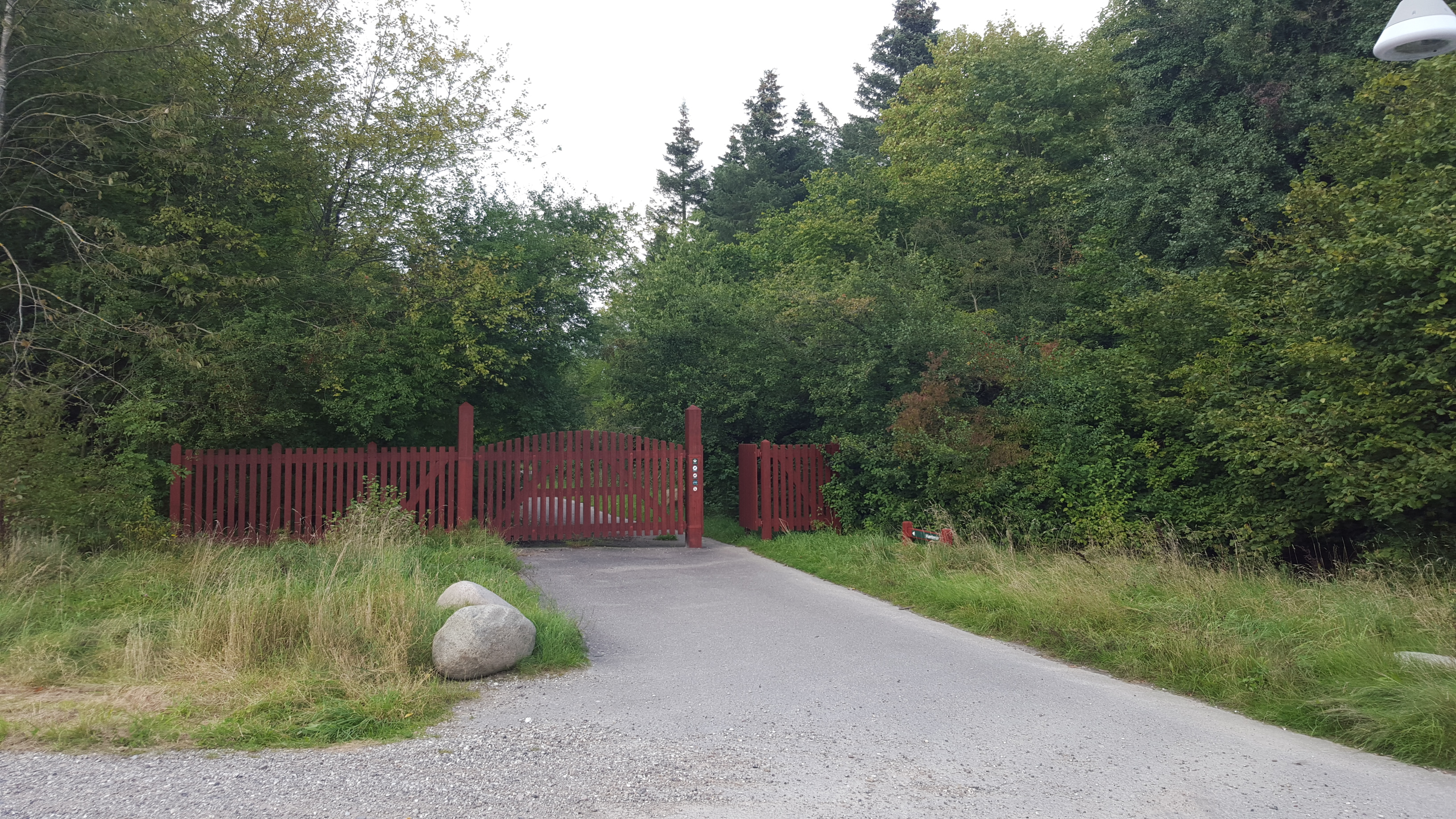 Vestskoven, "Western Forest" which is west of Copenhagen and thus quite easternly i Denmark.